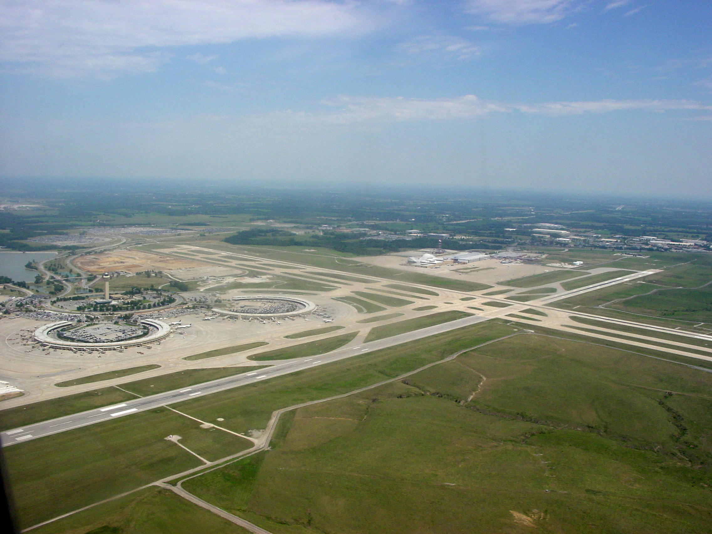 Kansas City International Airport (IATA: MCI).